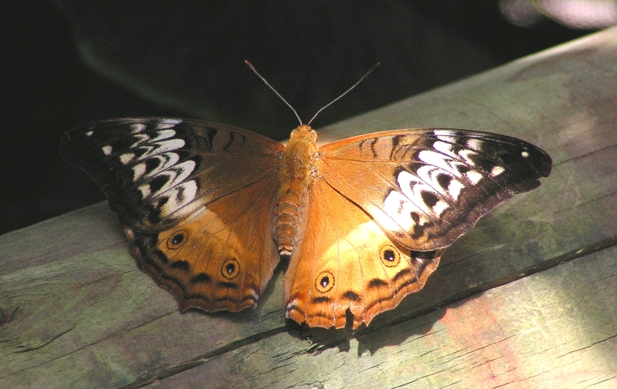 Female Cruiser (Vindula arsinoe) taken in Cairns, Queensland, Australia